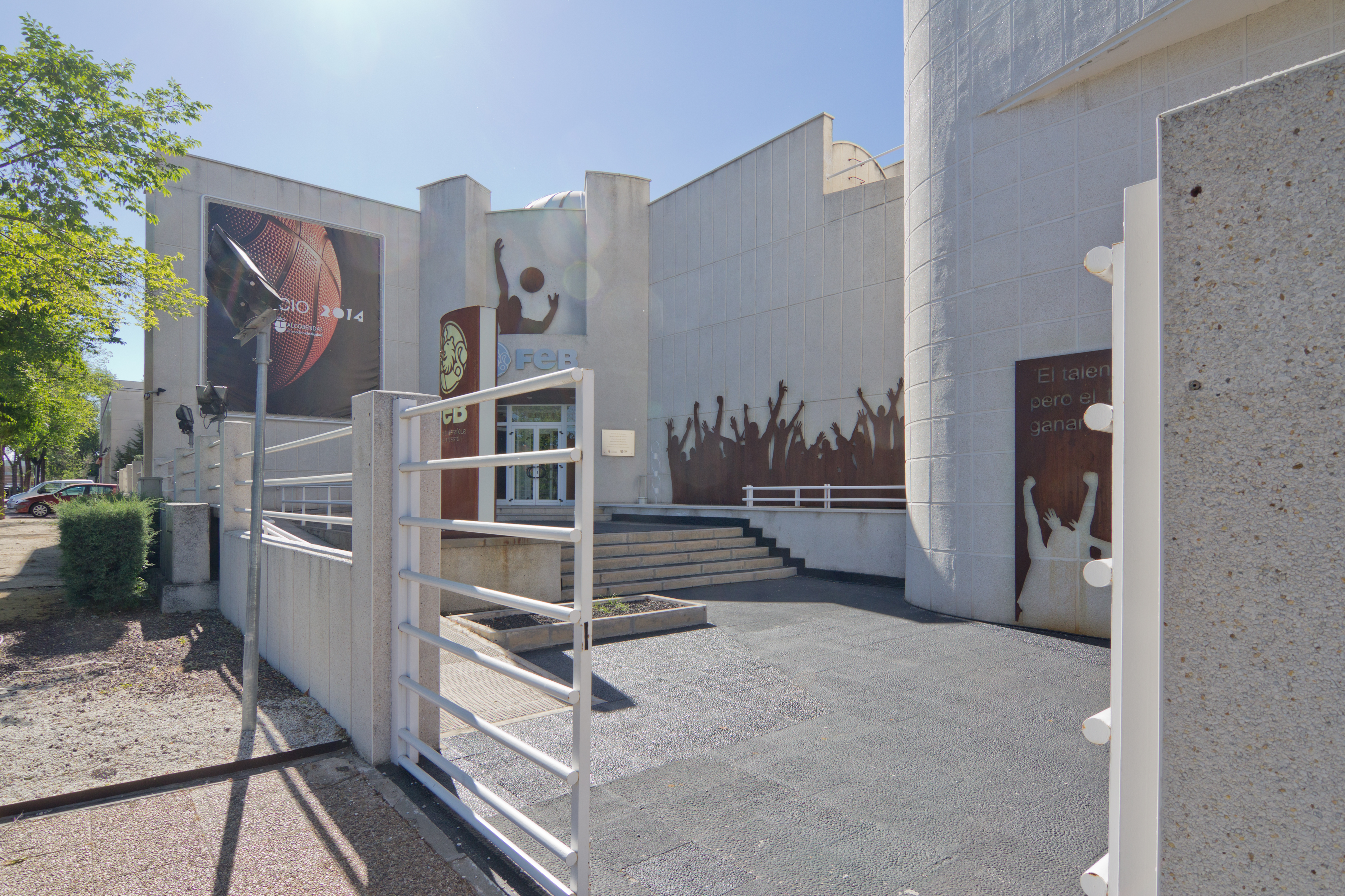 FIBA Hall of Fame, Alcobendas, Community of Madrid, Spain.